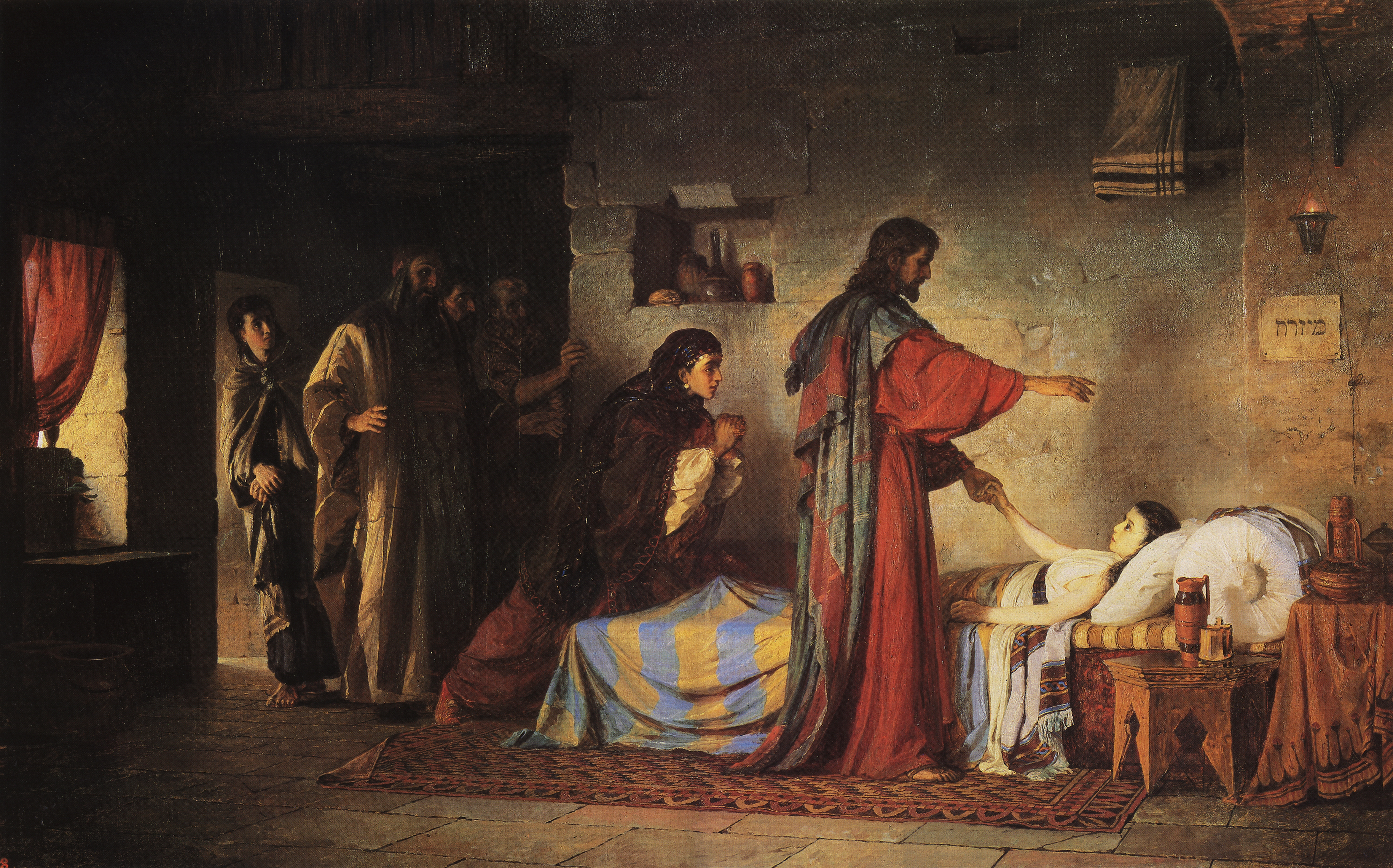 Ressurection of Jairus' daughter